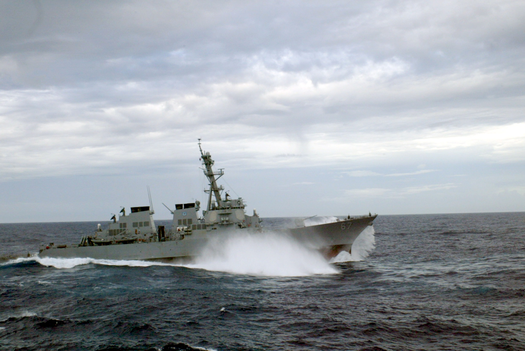 031203-N-0000S-001 Atlantic Ocean -- The guided missile destroyer USS Cole (DDG 67) encounters heavy seas while transiting across the Atlantic. This is USS Cole’s first deployment since the October 12, 2000, terrorist attack in Yemen. The ship was repaired by the Navy’s Supervisor of Shipbuilding, Repair and Conversion (SUPSHIP), Ingall’s Shipyard, Pascagoula, Miss., for an estimated $250 million. Cole is part of a three ship Surface Strike Group (SSG) assigned to USS Enterprise (CVN 65) Carrier Strike Group (CSG).